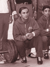 Iranian Weightlifting Team for the 1960 Olympics. Ali Safa-Sonboli